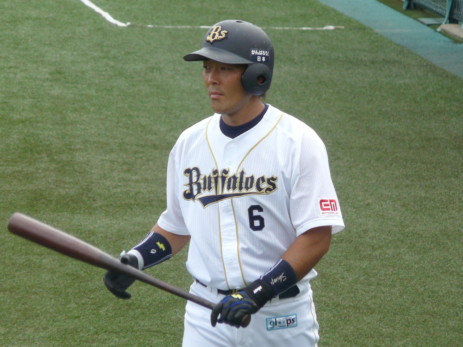 Shinji Takahashi, infielder of the Orix Buffaloes, at Kobe Sports Park Sub Baseball Ground.